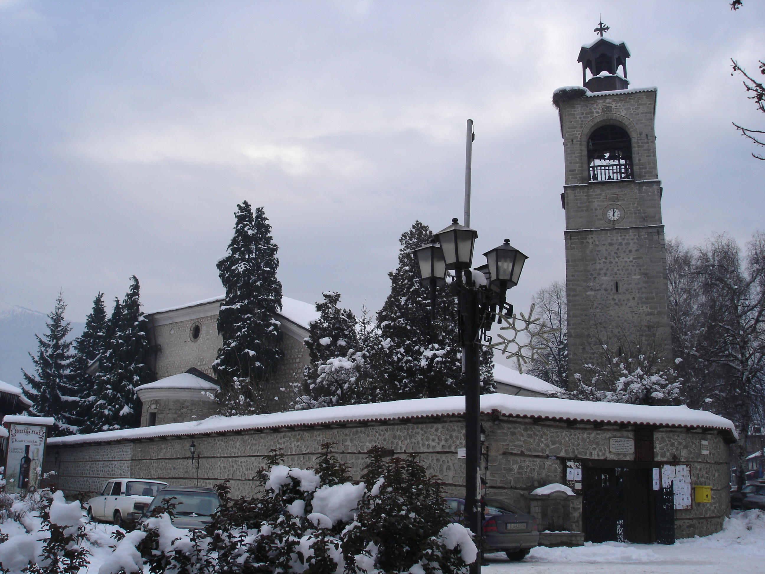 Holy Trinity Church of the Bulgarian national revival in Bansko